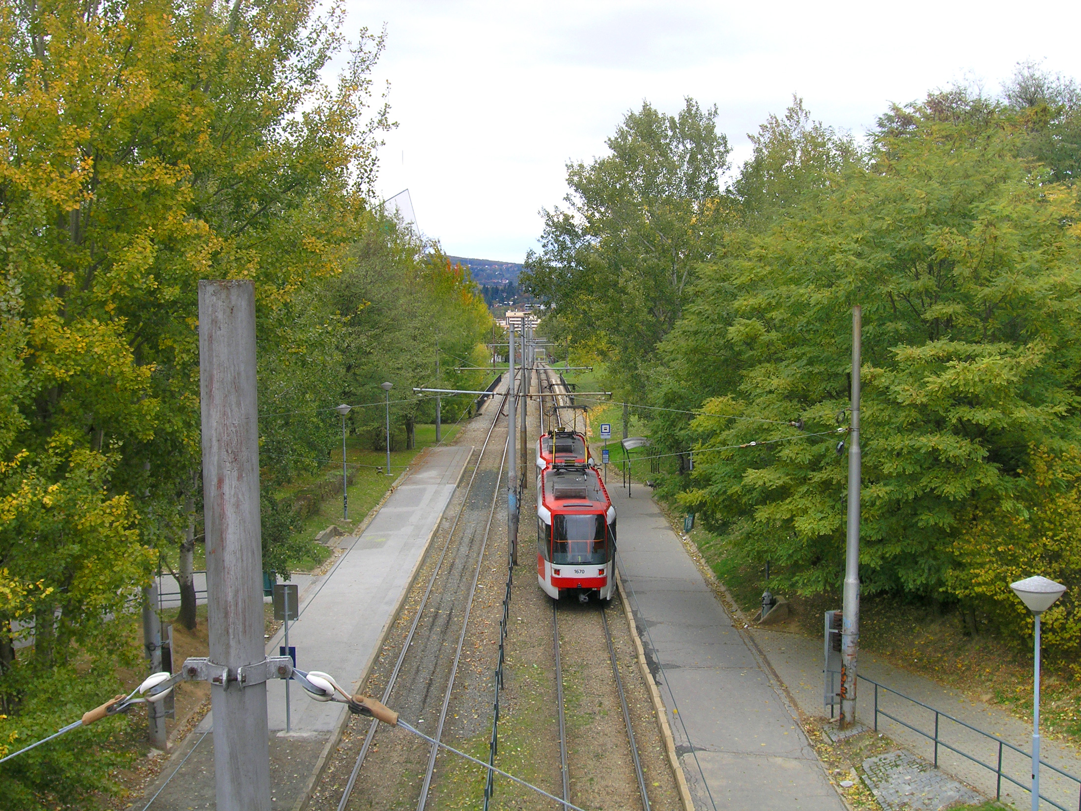 Kubíčkova tram stop in Brno, Czech Republic.